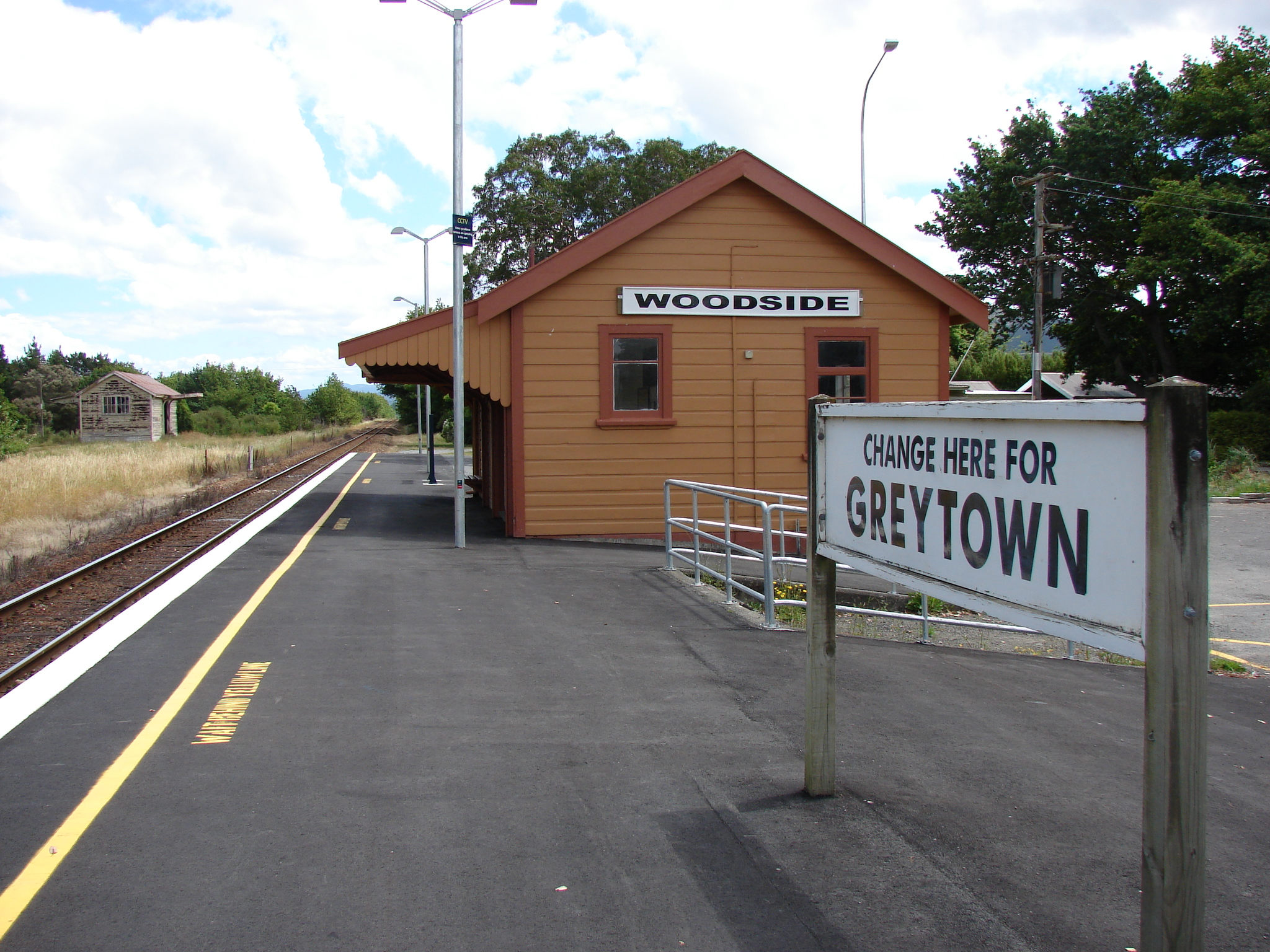 A reminder of bygone days. The original Woodside station building and a platform signboard that is reminiscent of the one that was located on the original island platform, and which read: "Woodside Junction. Change here for Greytown." Photographed by Matthew25187 on 2007-12-22.